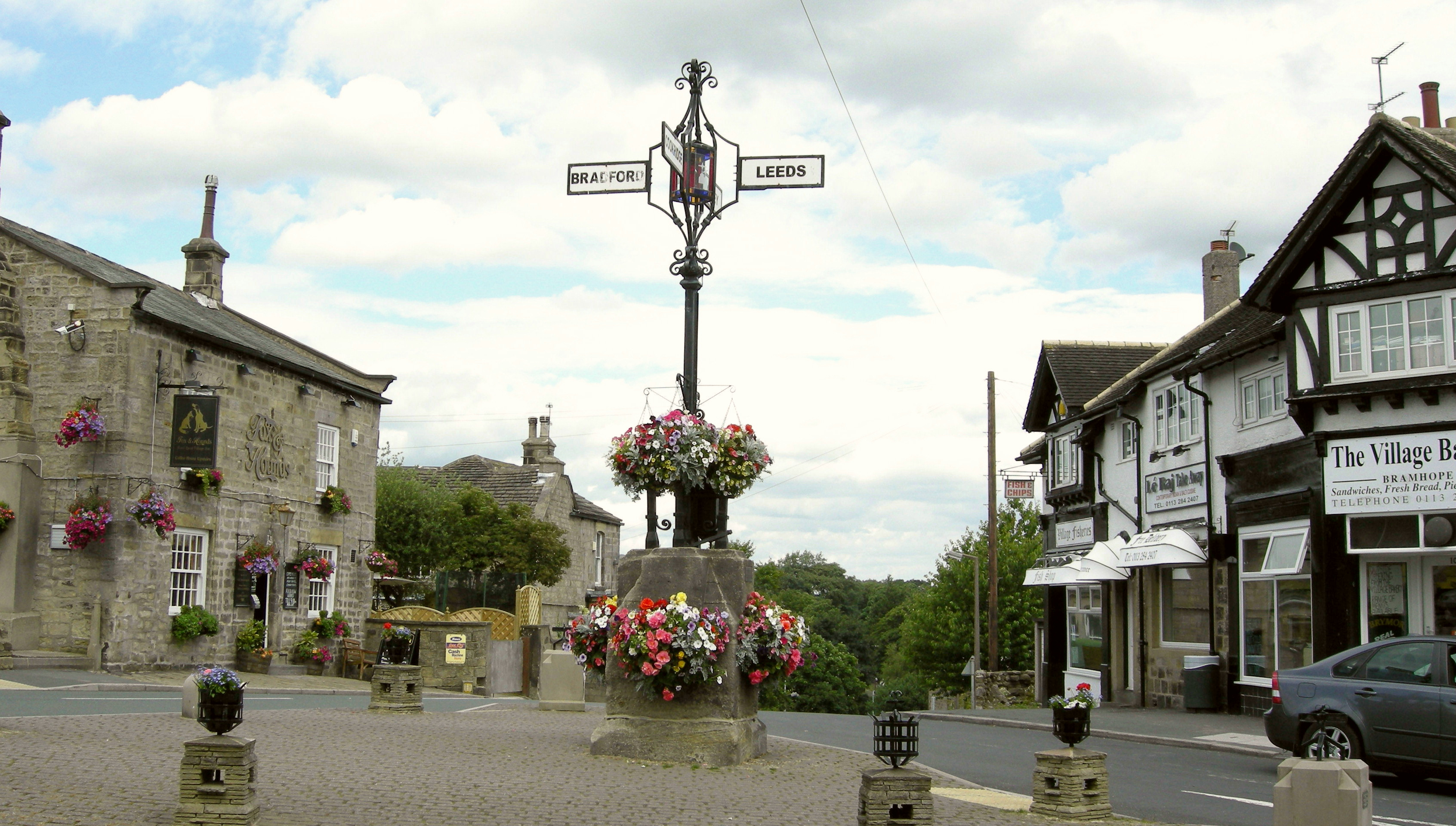 Old buttercross site at crossroads at Bramhope, West Yorkshire, England. 53 53'07"N. 1 37'24"W.